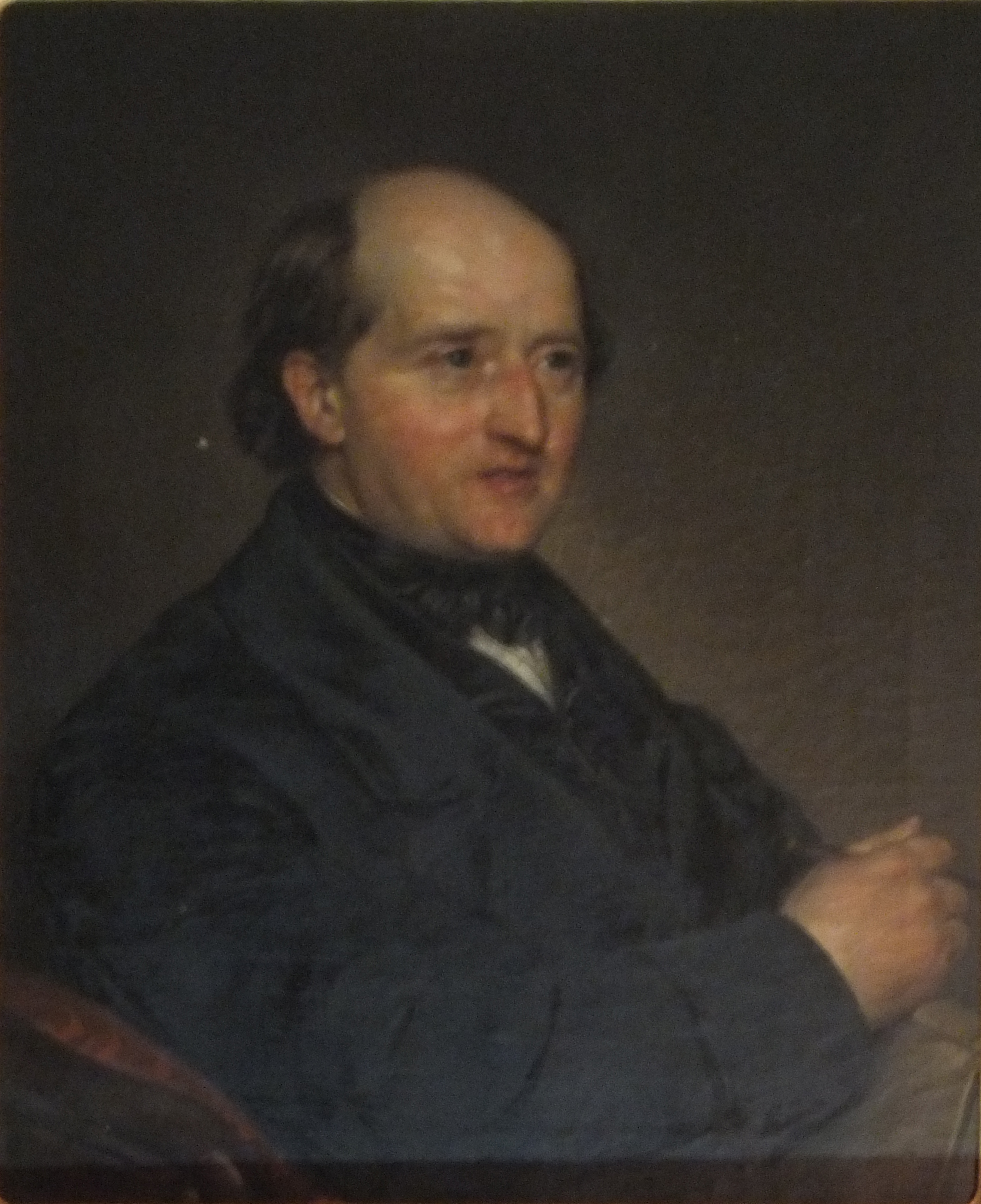 Portrait of abbot Giovanni Battista a Prato, held in the family palace in Piazzo (Segonzano)